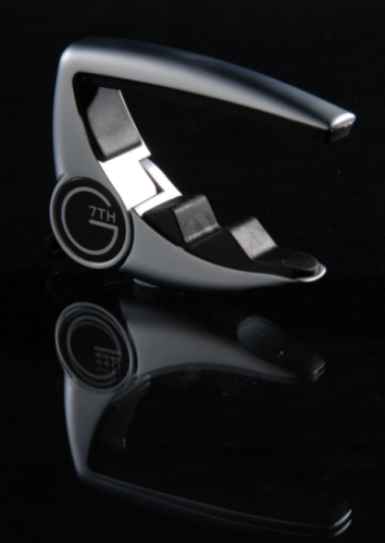 The G7th capo uses a novel "wrap spring clutch"